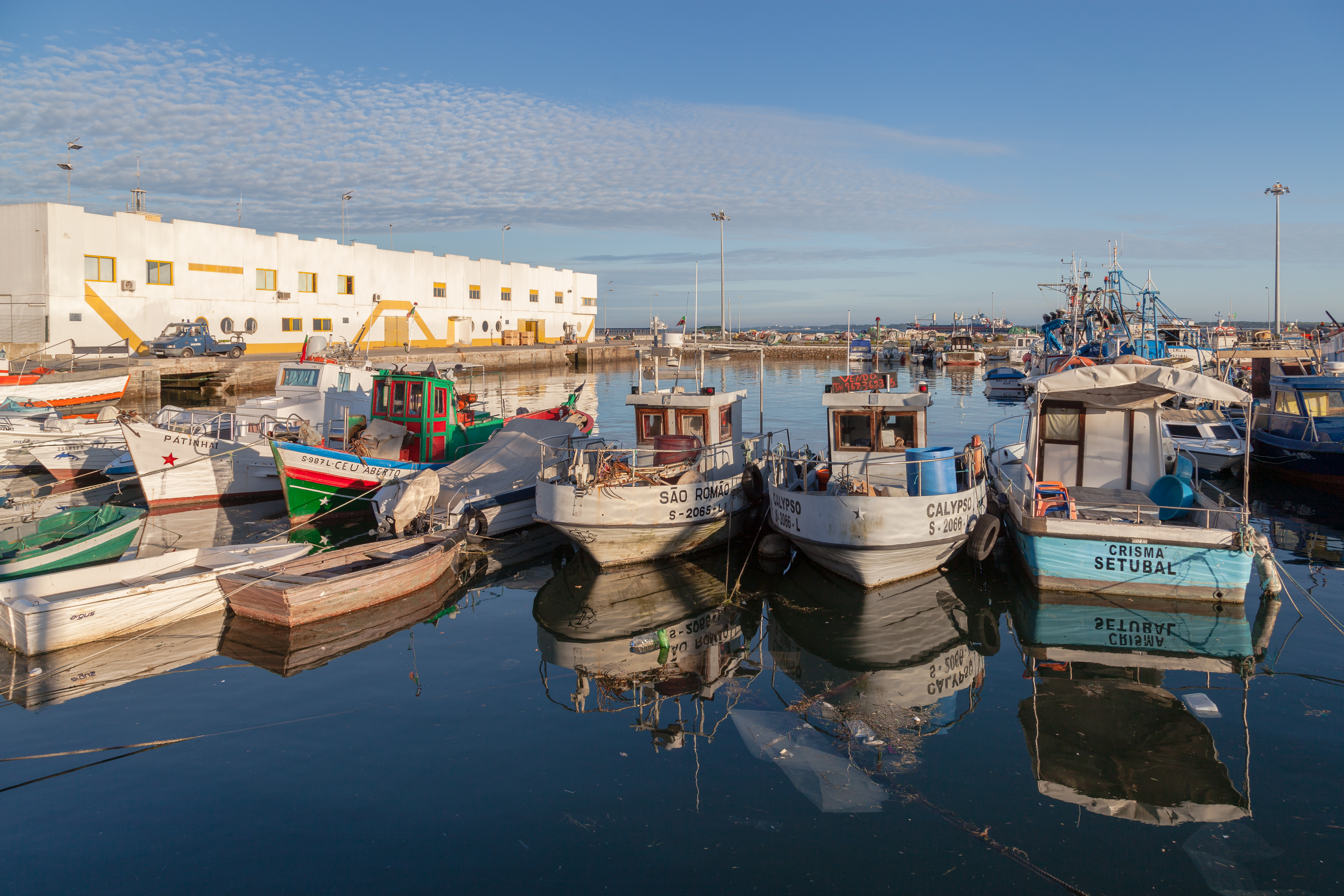 Port of Setubal, Portugal